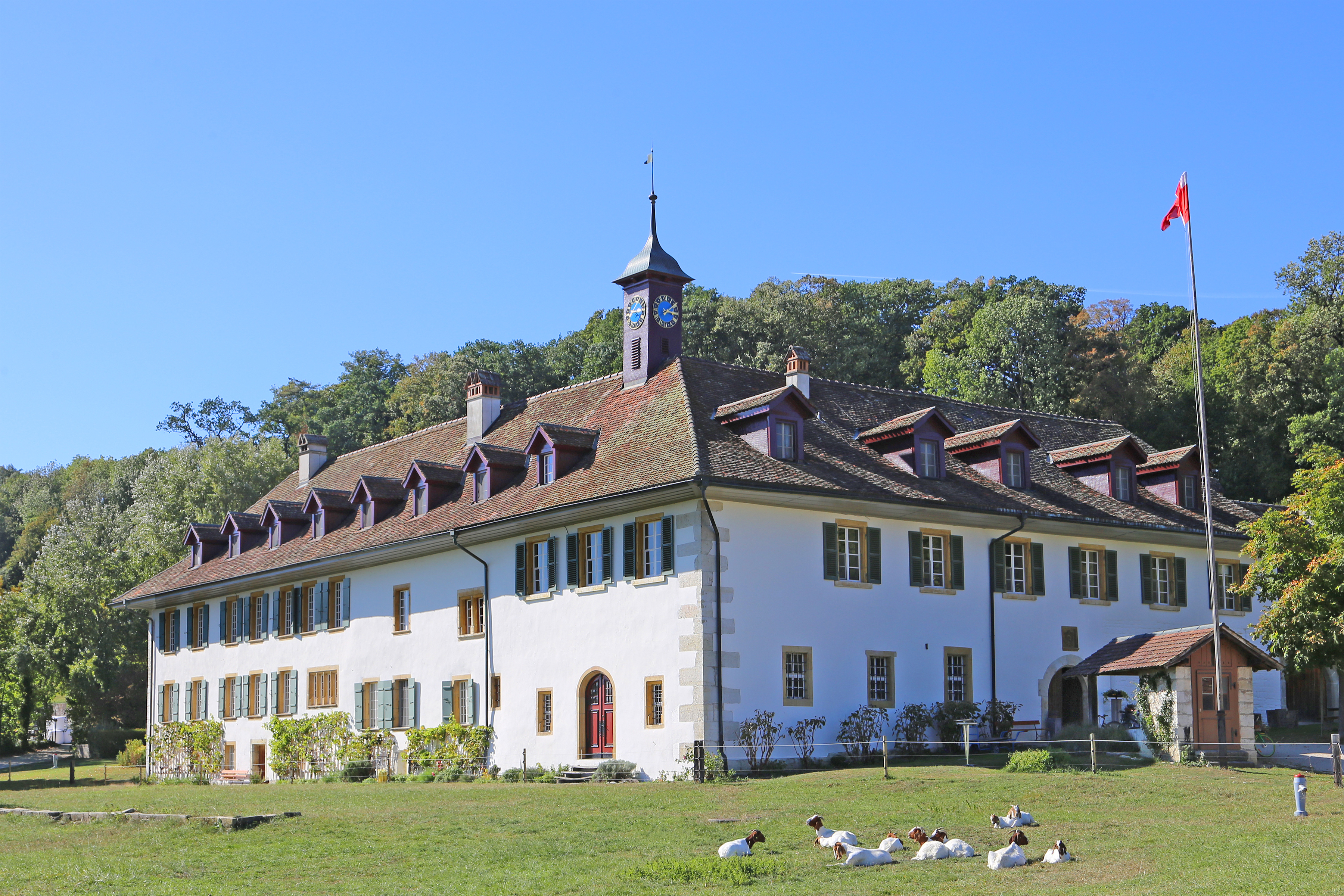 Former monastery (now an inn) on St. Peter's Island. The peninsula is located in Lake Biel near Erlach in the canton of Bern, Switzerland.